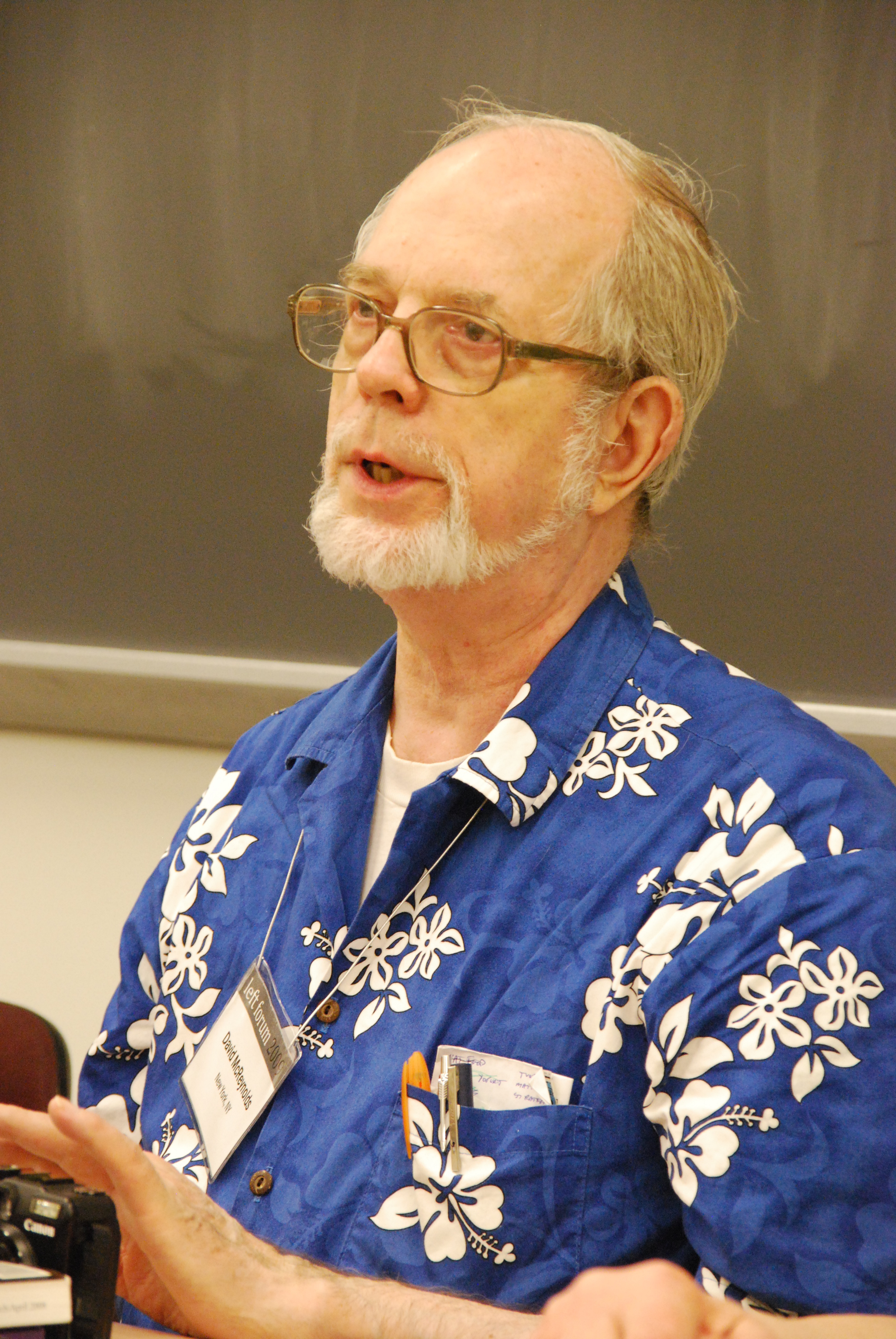 Long time War Resisters League activist/leader and Socialist Party member David McReynolds at the Left Forum (NYC).